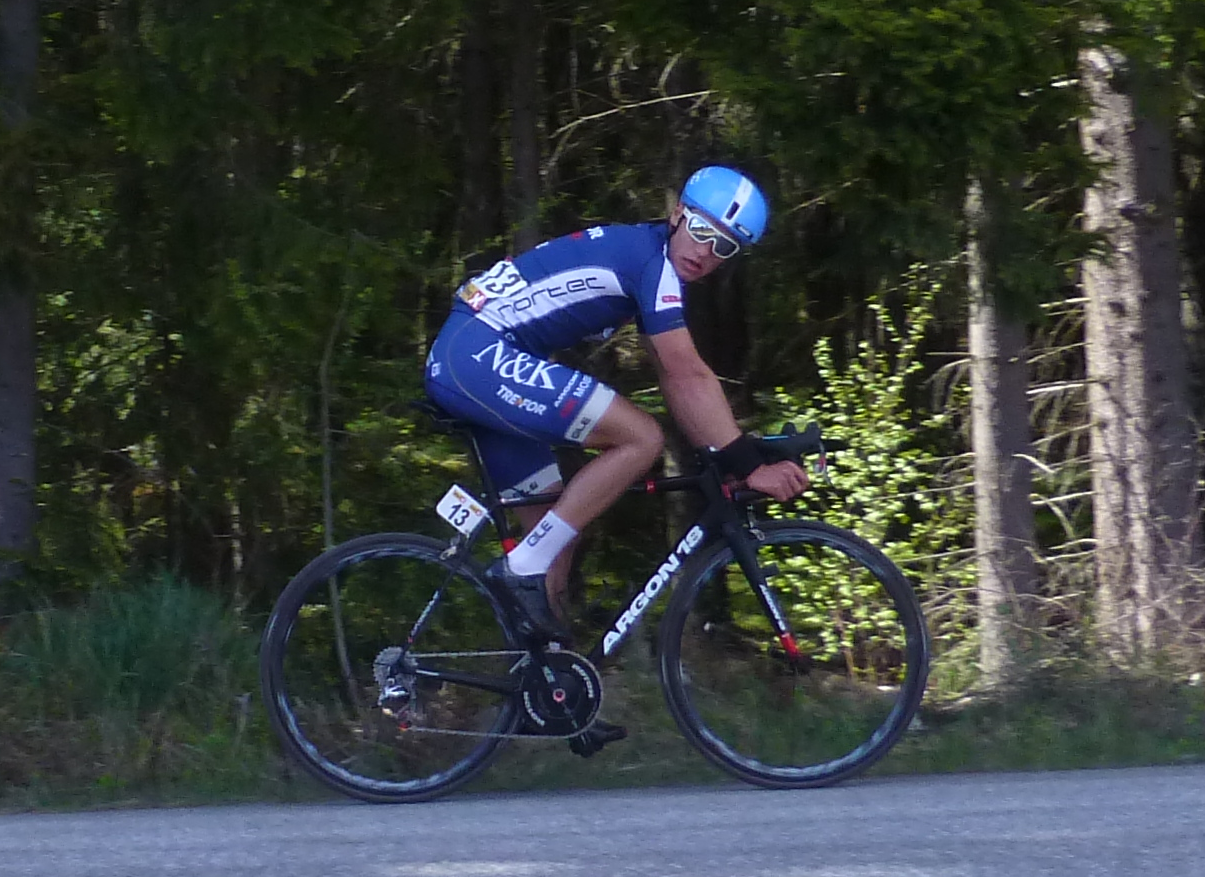 Asbjørn Kragh Andersen (b. 09 - apr - 1992), danish cyclist. Picture from Ringerike Grand Prix 2015.